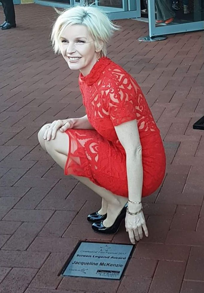 Screen Legend Award 2017, CinefestOz. Photo credit: Elsa Jean